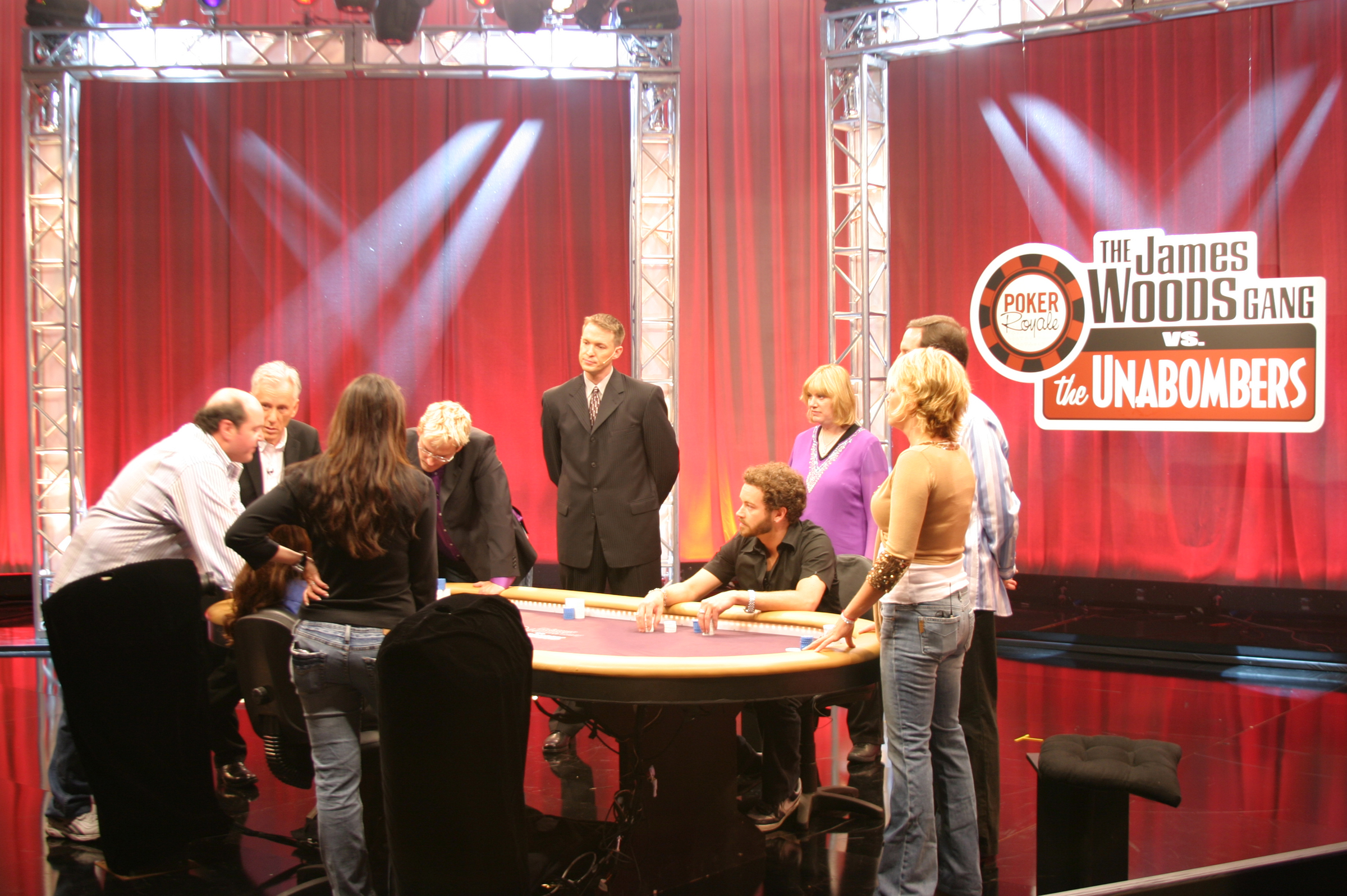 Poker Royale: The James Woods Gang vs the Unabombers at Pechanga Casino, California